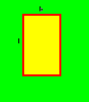 A image of the perimeter of a rectangle.